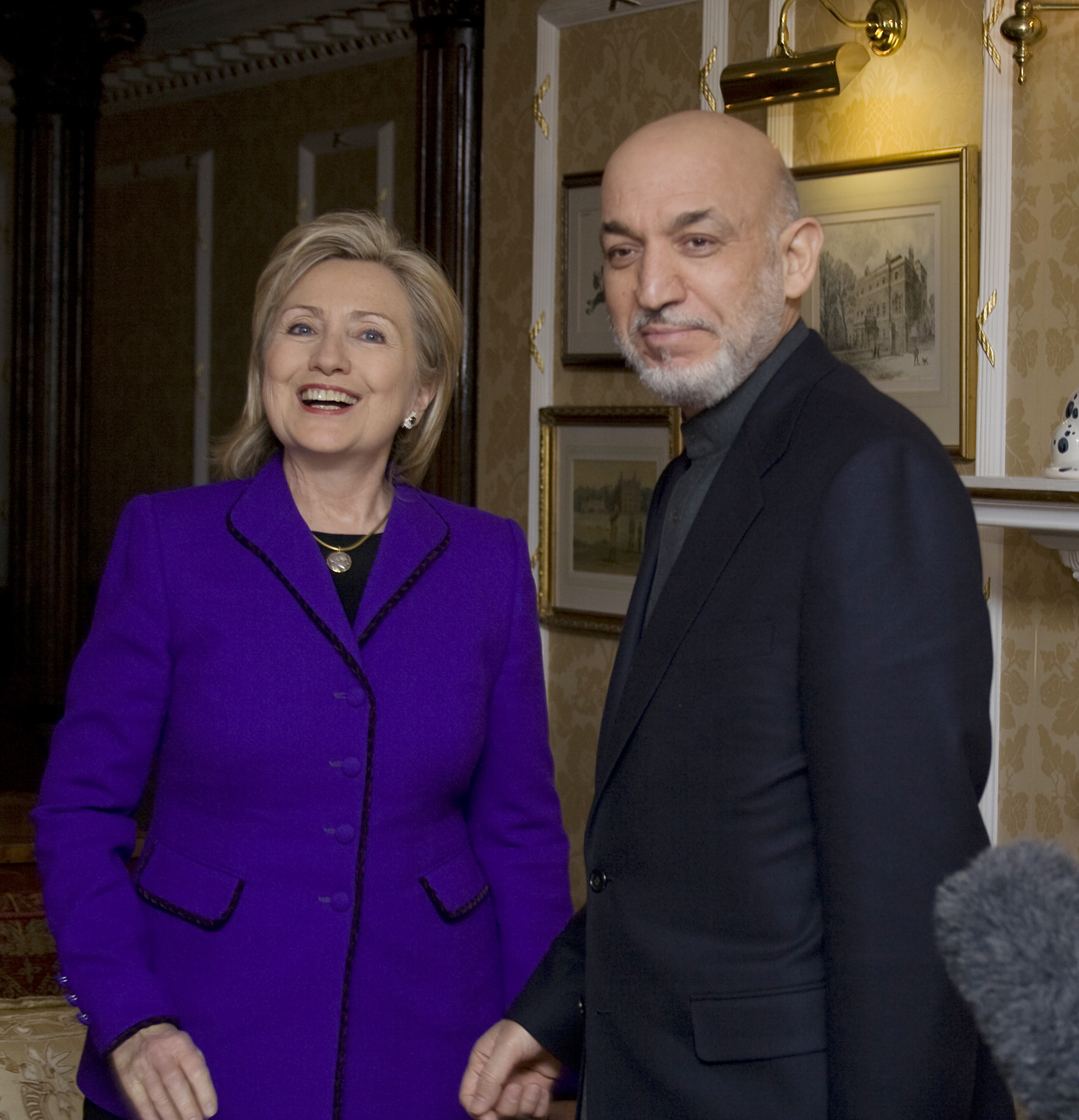 U.S. Secretary of State Hillary Rodham Clinton meets with President of Afghanistan Hamid Karzai in London, January 28, 2010. [U.S. Embassy London photo / Public Domain]